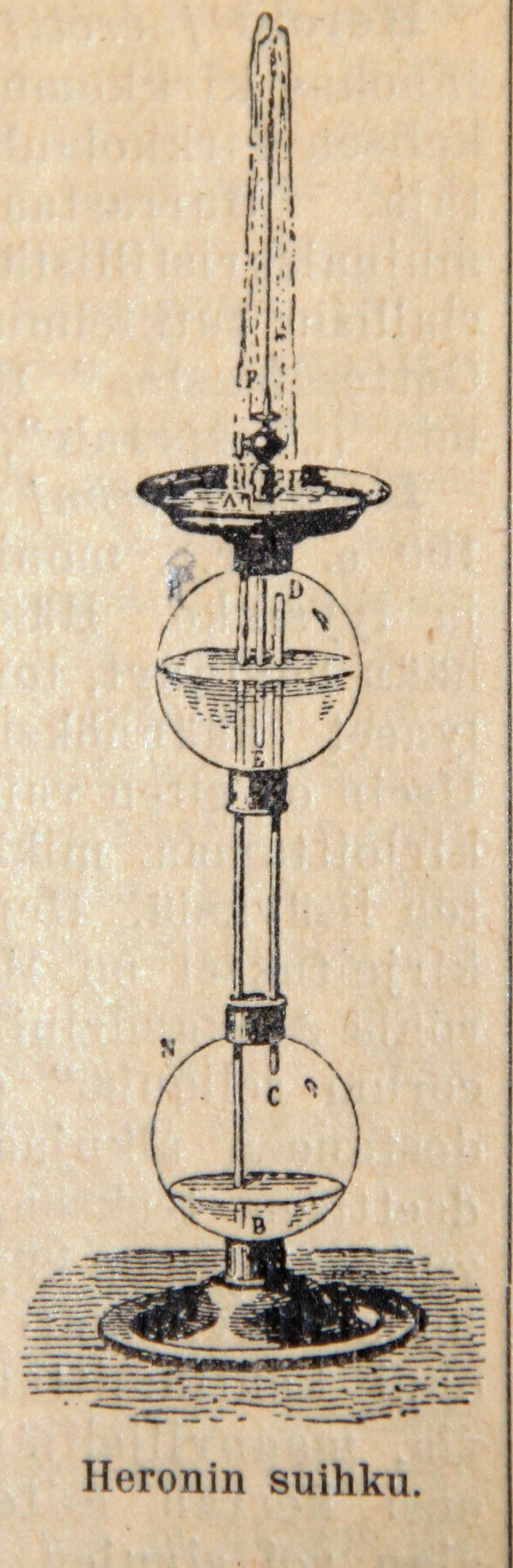 Heron's fountain in the old Finnish encyclopedia Tietosanakirja